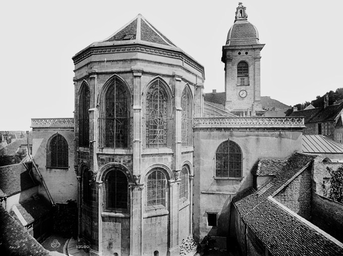 The Besançon Cathedral, before 1893